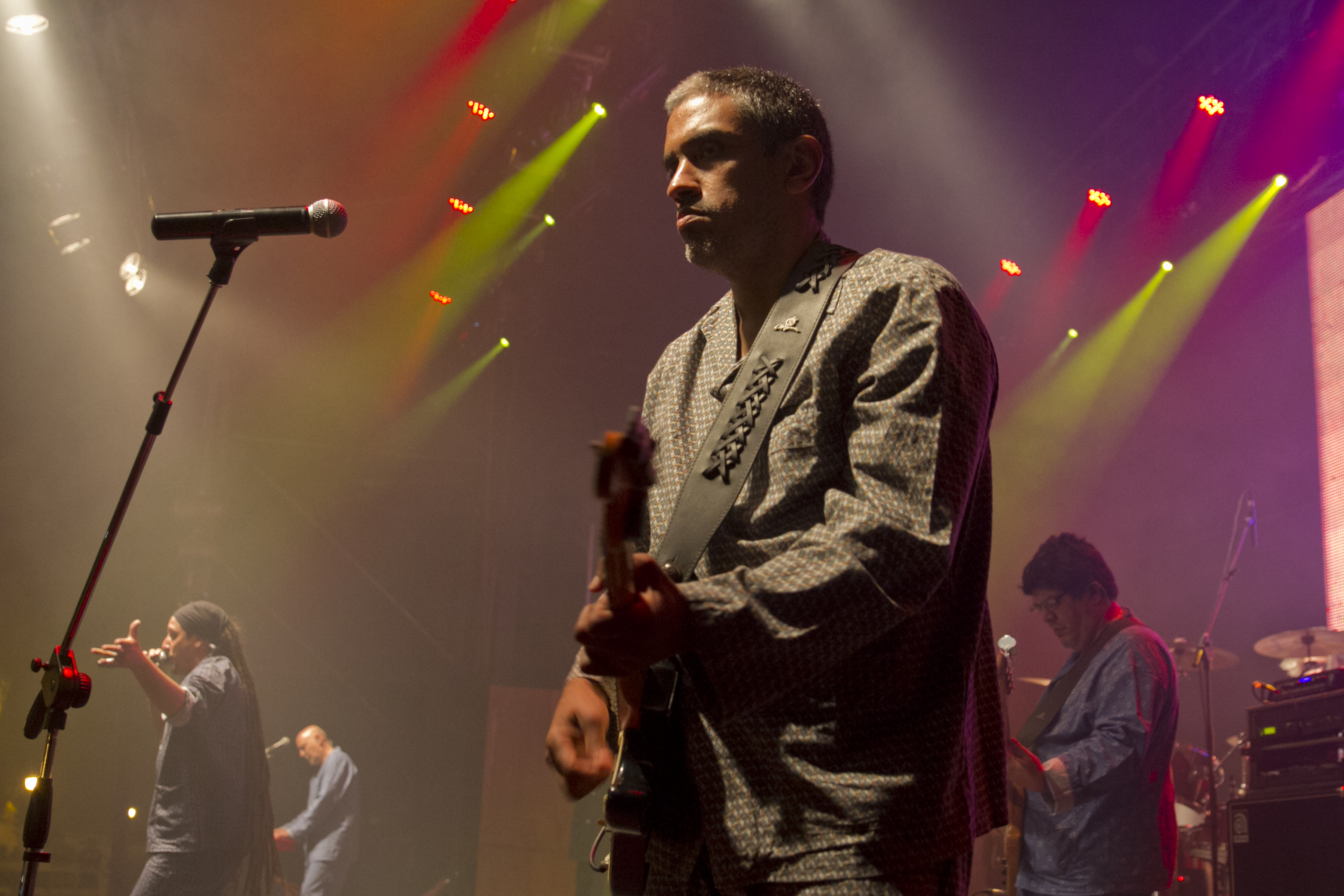 Reconquista,12 de abril de 2015- La ministra de Cultura de la Nación, Teresa Parodi, visitó la ciudad de Reconquista, donde participó del cirre regional de Maravillosa Música junto a las cinco bandas ganadoras. Para el cierre de la noche tocó la banda Bersuit Vergarabat.-Fotos: Margarita Solé / Ministerio de Cultura de la Nación